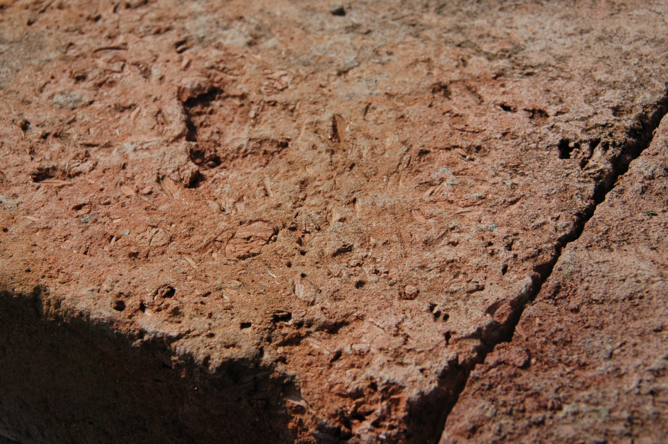 Temples found at Batujaya archaeological complex was built using mud bricks containing rice chaff.